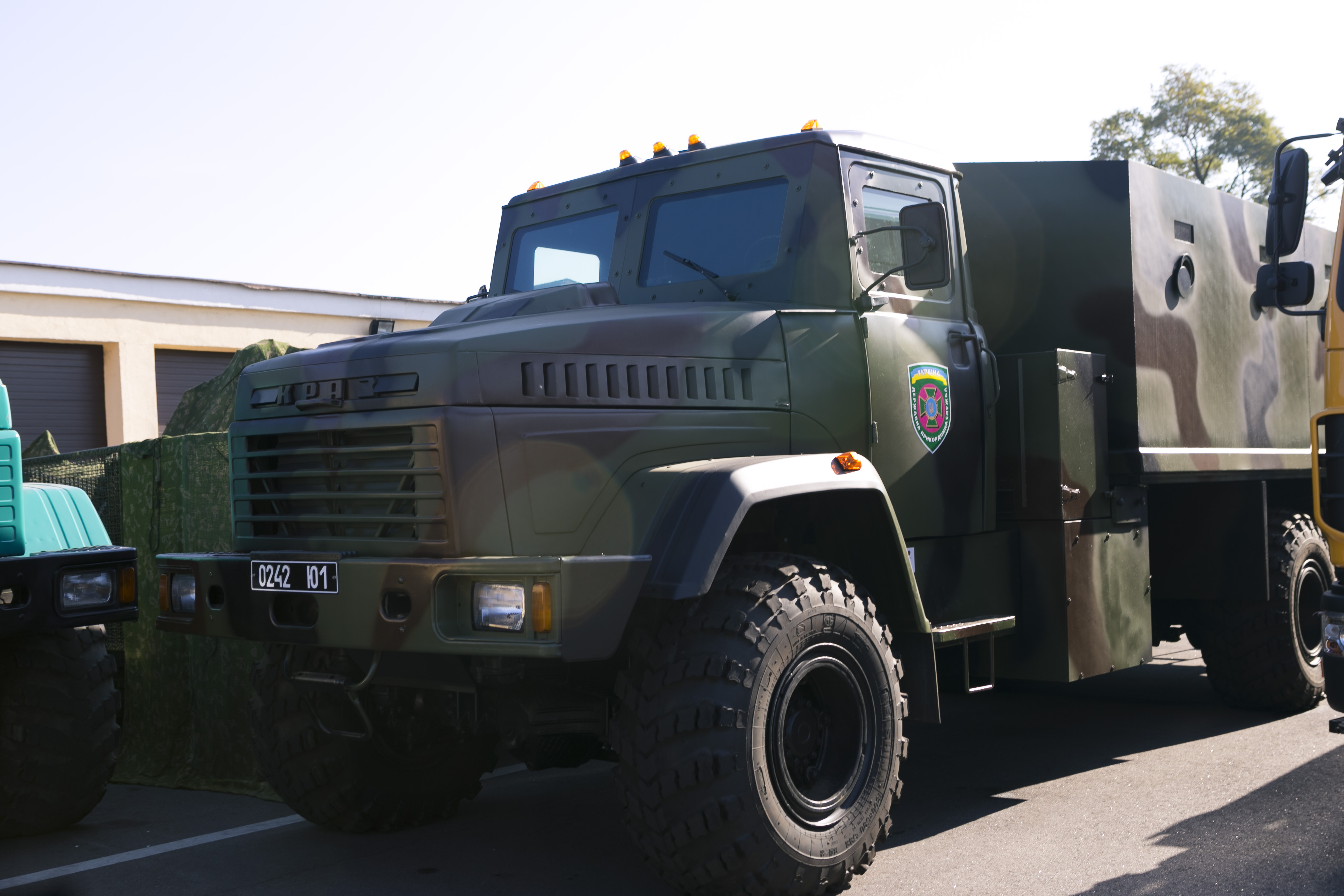 Assistant Secretary of State Victoria Nuland at a Ukrainian State Border Guard Service (SBGS) Base in Kyiv, Oct. 8, 2014